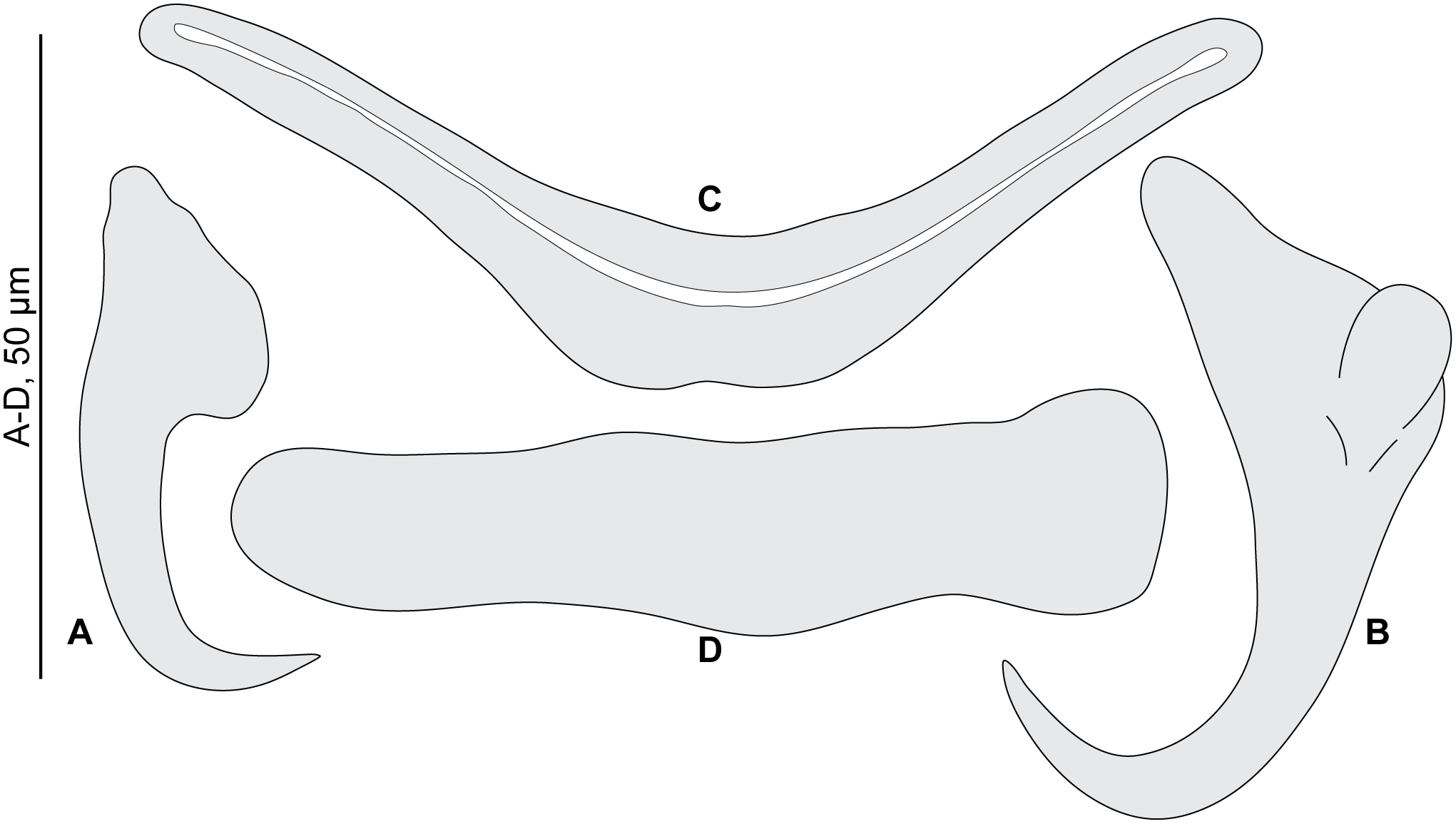 Figure 13 of paper Pseudorhabdosynochus sinediscus from Mycteroperca costae, haptoral parts. A, dorsal anchor; B, ventral anchor; C, ventral bar; D, lateral bar. All, MNHN HEL562, Tunisia, Berlese. This species has no squamodiscs.